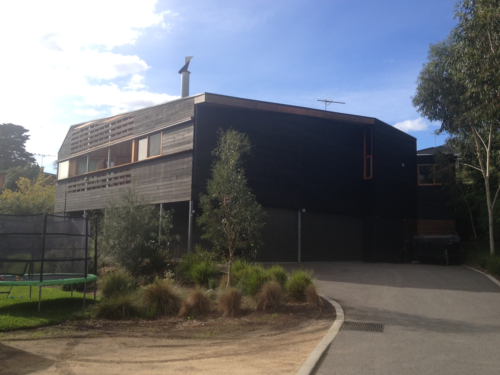 Ivanhoe House